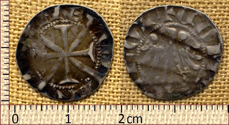 Silver coin Tiroler Groschen, 1286, scanned Obverse: ME IN AR DVS -- Double Cross Reverse: COMES TIROL -- Tirol counts eagle 1,45 g silver